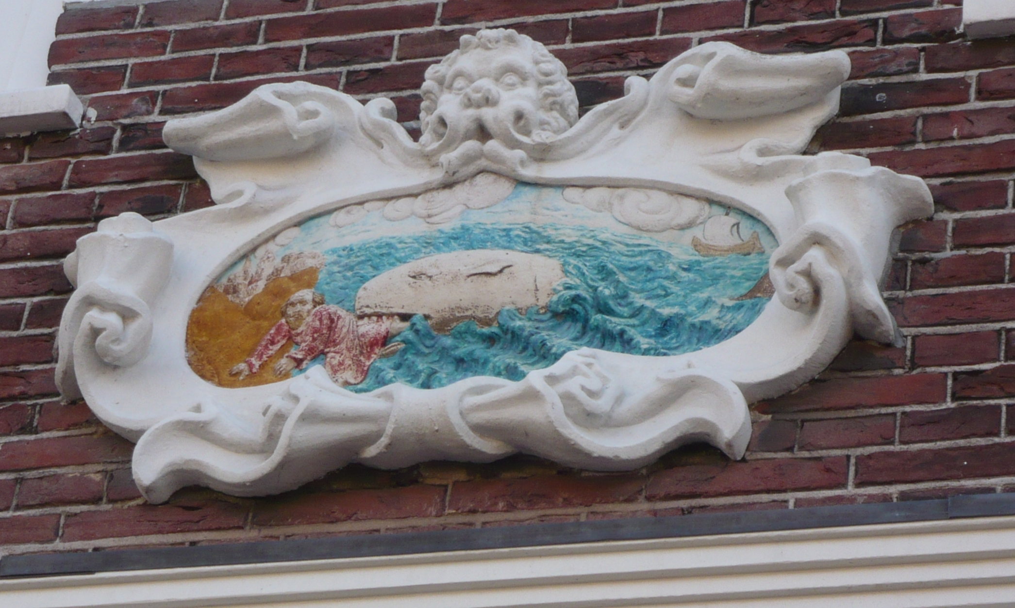 Gable stone "Jonah and the whale" on the facade of Spaarne 35, Haarlem, The Netherlands. 28″ N, 4° 38′ 18.91″ E